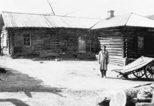 Kultuk, Benedykt Dybowski house